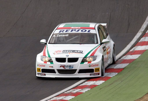 Alessandro Zanardi (BMW Team Italy-Spain) at the 2008 WTCC Brands Hatch race.